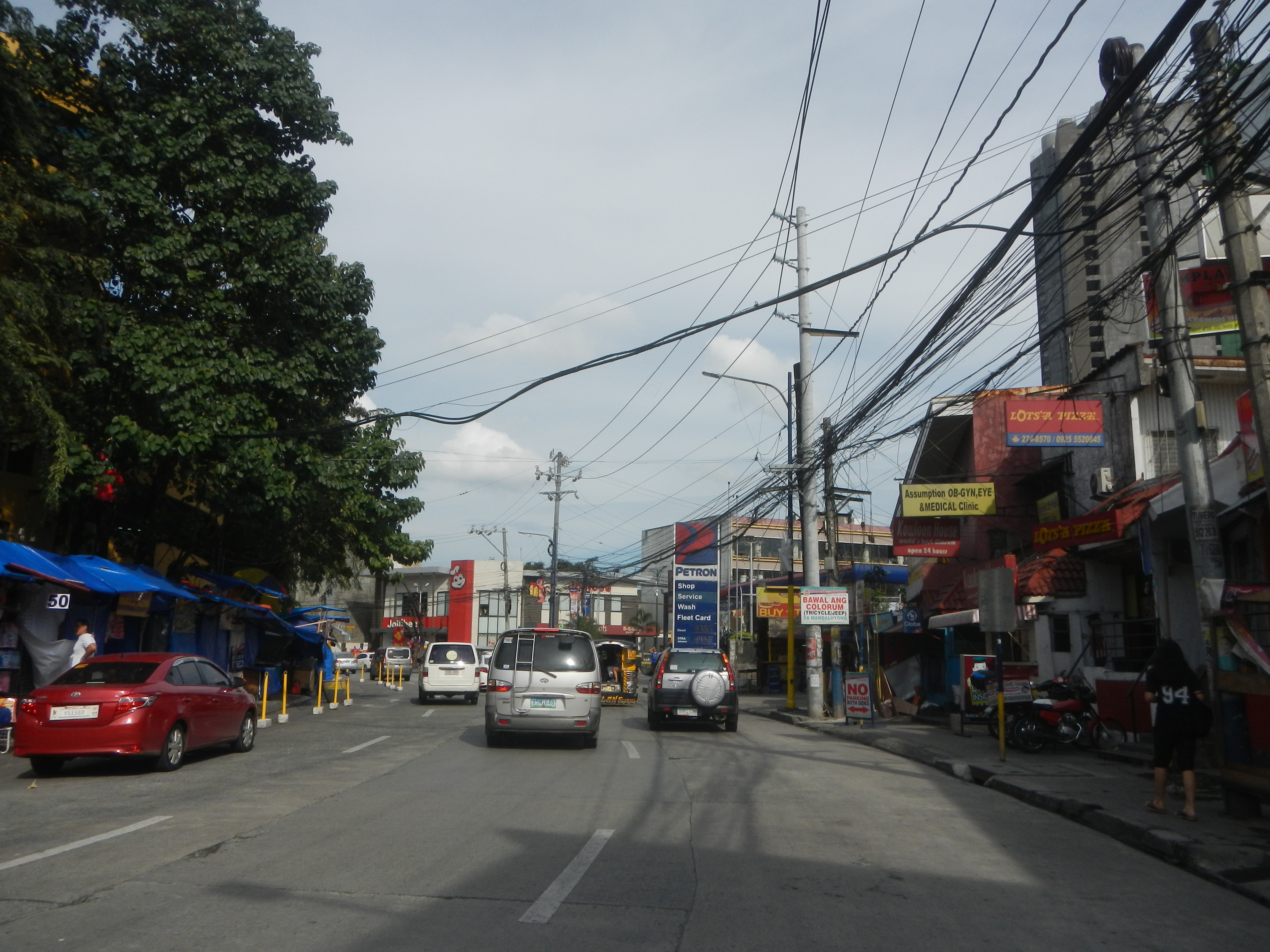 Mandaluyong City along Boni Avenue (Mandaluyong) 14°34'36"N 121°2'5"E Boni Avenue List of barangays of Metro Manila, Barangay Maligaya Barangay Barangka Ilaya 14°34'21"N 121°3'2"E Plainview 14°34'36"N 121°2'6"E Mandaluyong City Landmarks include Boni Avenue, Plainview 14°34'34"N 121°2'7"E Mandaluyong City Hall Complex (Maysilo Circle) 14°34'38"N 121°2'1"E Bantayog ng Kabataan 14°34'40"N 121°2'5"E Kaban ng Hiyas, Justice Hall (Mandaluyong City) Kaban ng Hiyas14°34'41"N 121°2'2"E City cultural center, historical museum and convention hall Neptali Gonzales Monument statue museum (Note: Judge Florentino Floro, the owner, to repeat, Donor Florentino Floro of all these photos hereby donate gratuitously, freely and unconditionally all these photos to and for Wikimedia Commons, exclusively, for public use of the public domain, and again without any condition whatsoever).